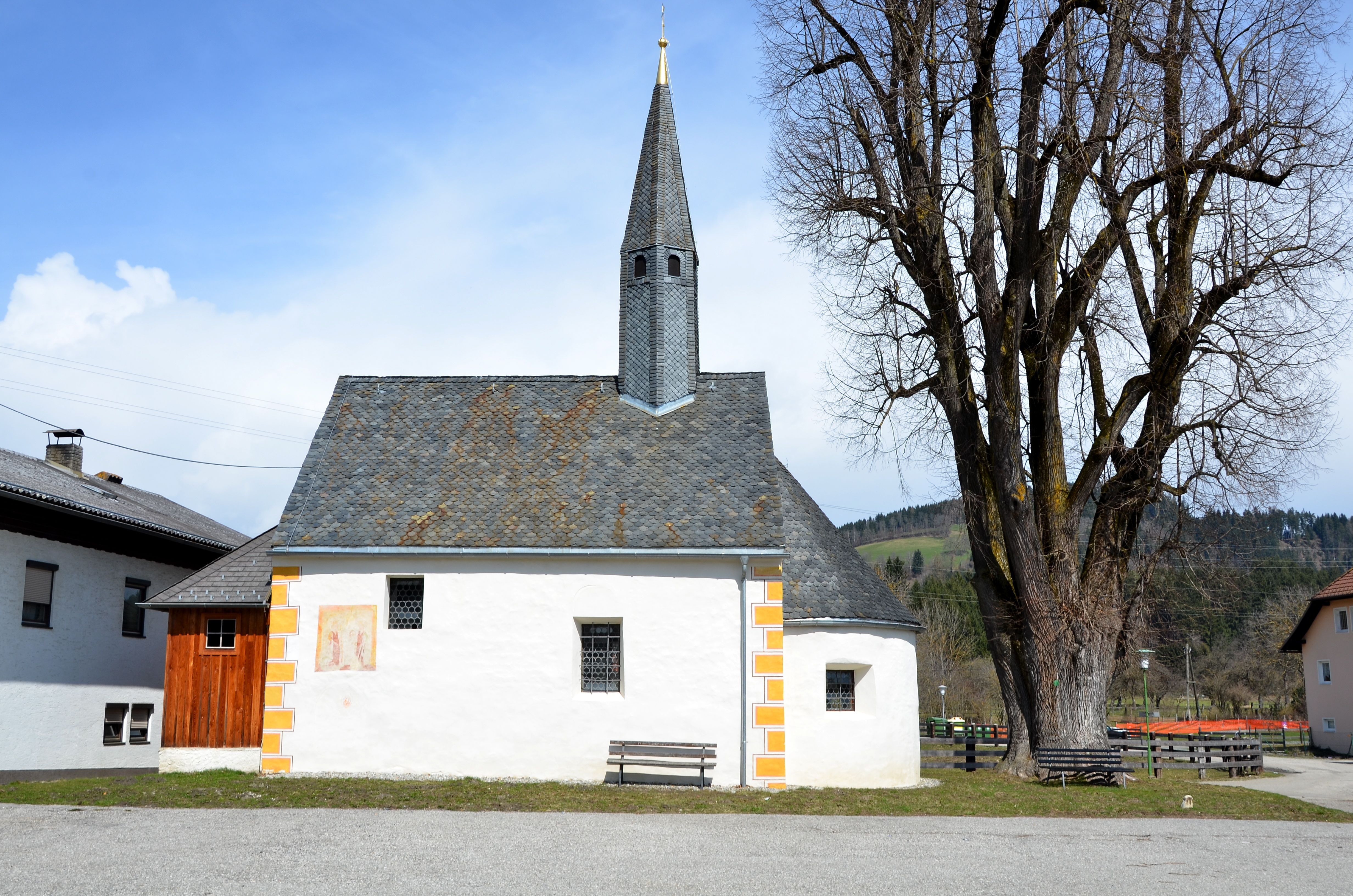 Subsidiary church Saint Margaret at Tiffen, municipality Steindorf am Ossiacher See, district Feldkirchen, Carinthia / Austria / EU